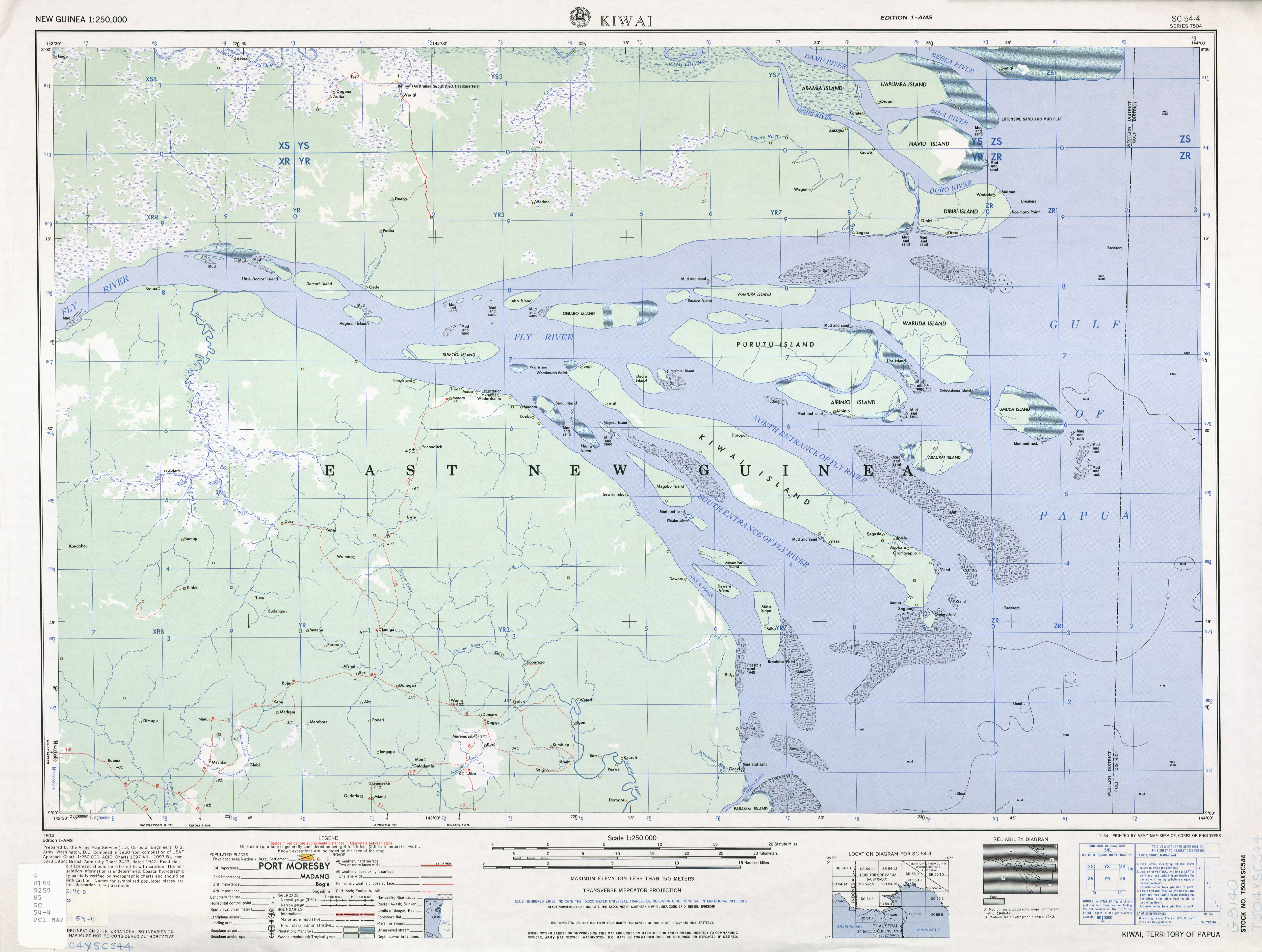 1:250,000 map of Fly River Delta, Western Province, Papua New Guinea